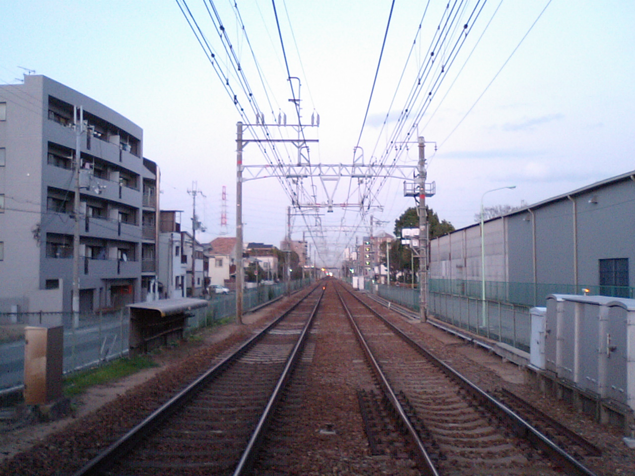 Track of Hankyu Kobe Line (Amagasaki, Hyogo).直線主体の阪急神戸線の線路。武庫之荘駅西方の踏切にて撮影。